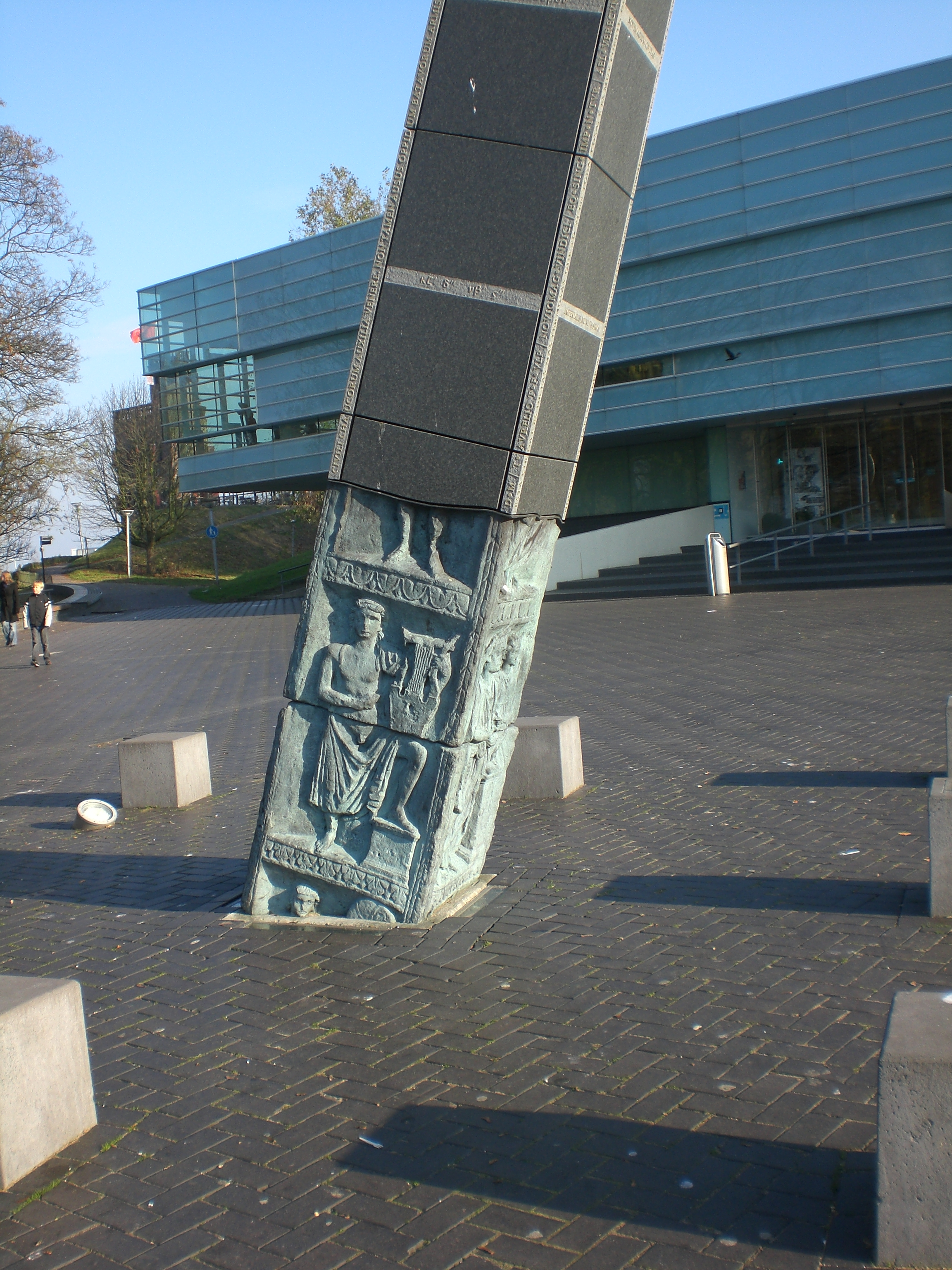 Monument Noviomagus by Rutger Fuchs and Ram Katzir. In front of Museum Het Valkhof. Museum Het Valkhof Native nameMuseum Het ValkhofLocationNijmegen AddressKelfkensbos 596511 TB NijmegenNetherlandsCoordinates51° 50′ 47″ N, 5° 52′ 16″ E Established1999 Web page control : Q1127079 VIAF: 158715438 ISNI: 0000 0004 0533 6734 LCCN: no2002025807 GND: 5519052-2 SUDOC: 075891700 WorldCat institution QS:P195,Q1127079